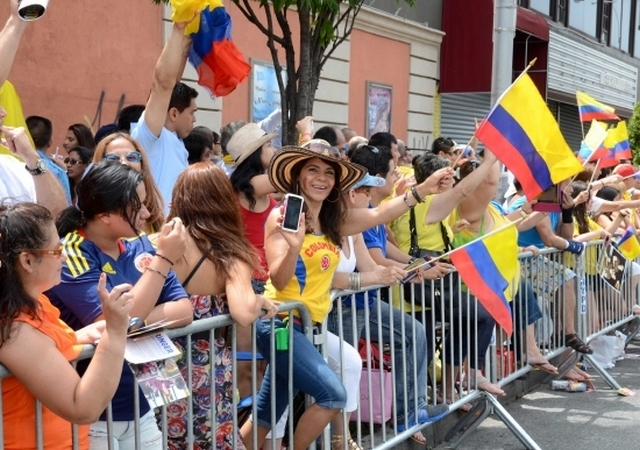 Colombian people celebrating the annual independence parade in Queens county NYC